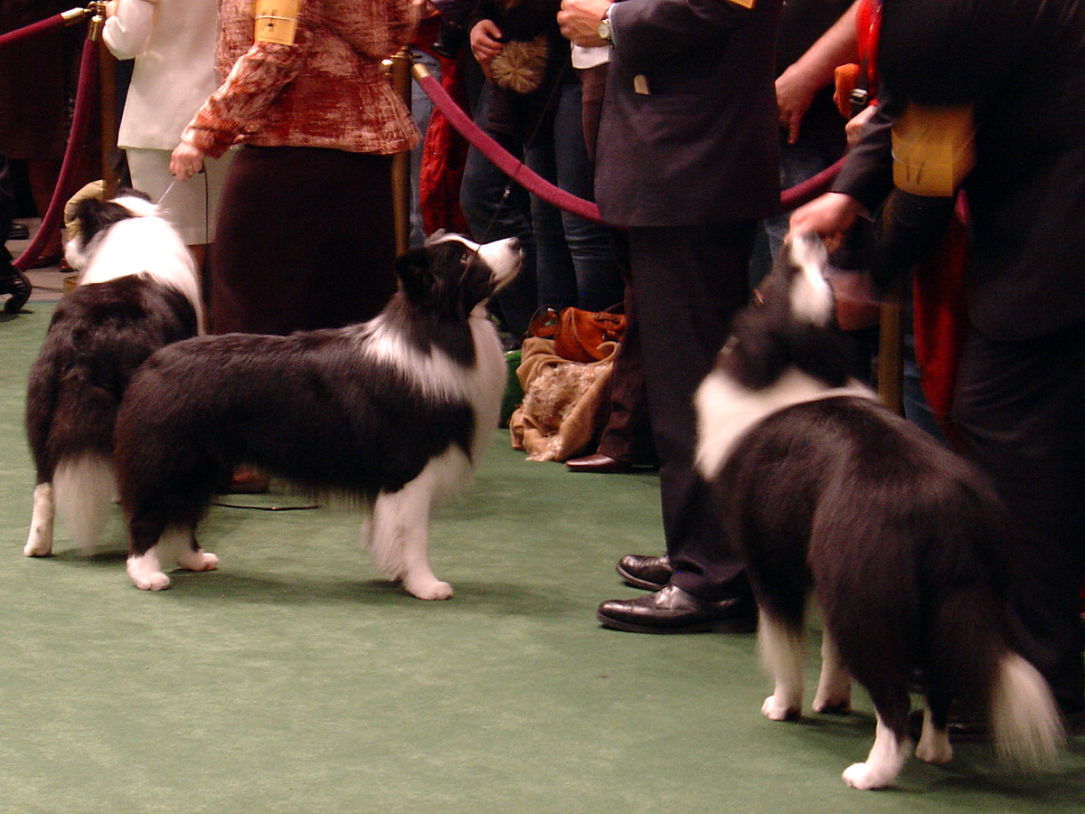 Border Collies during the breed judging at the 2007 Westminster Kennel Club Dog Show.